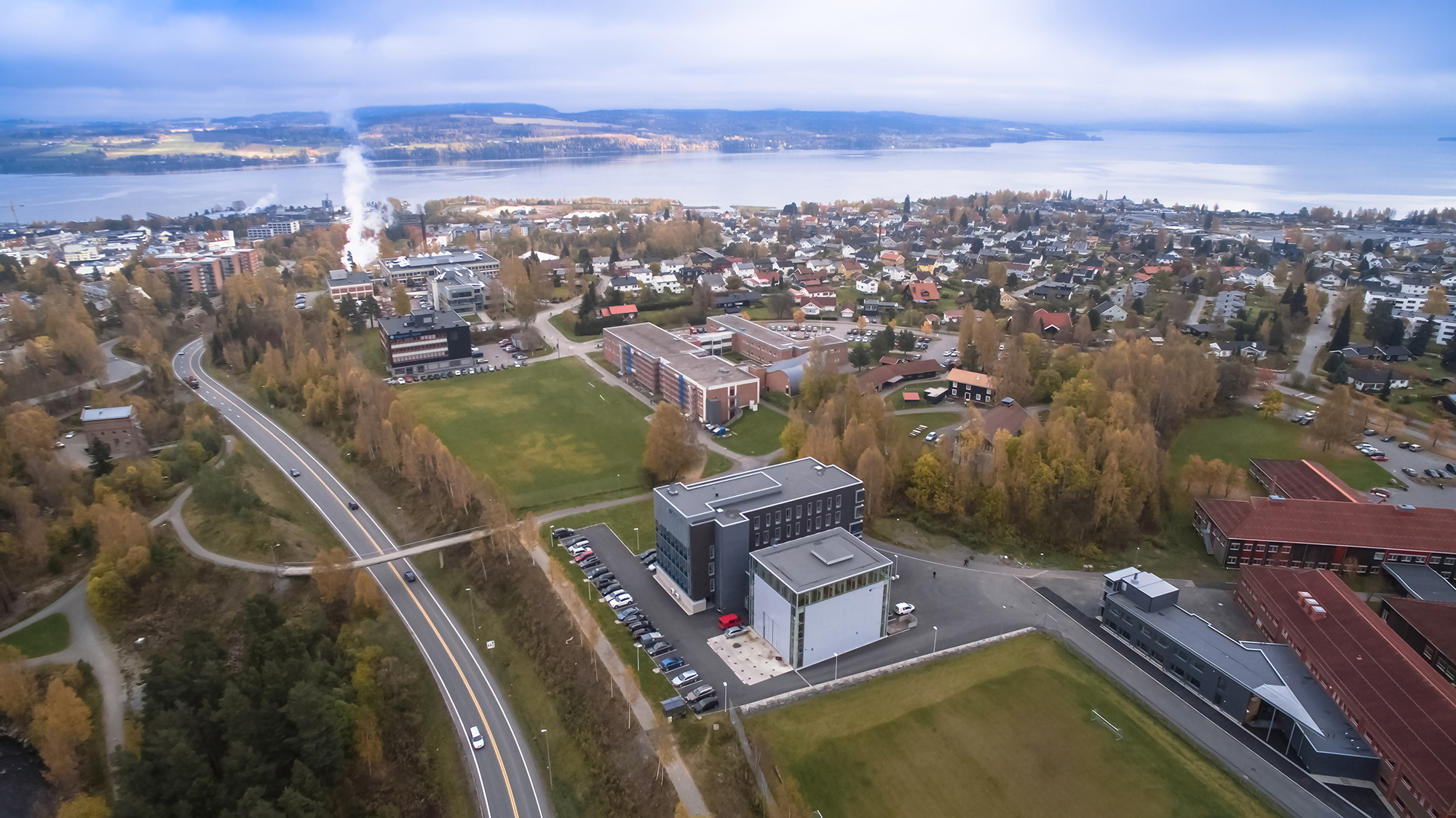 The Norwegian University of Science and Technology (NTNU). The Gjøvik campus